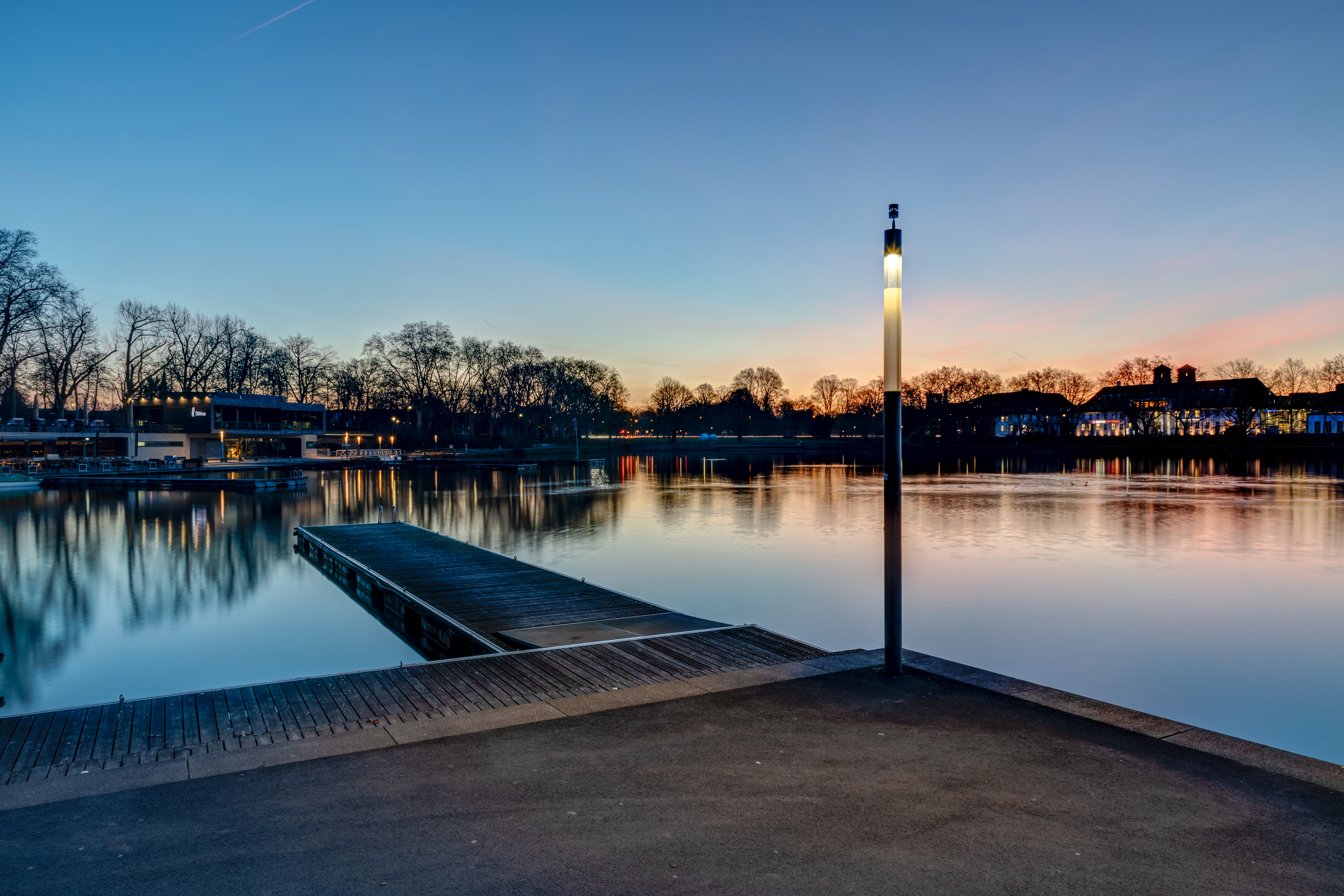 Restaurants and pier at the Aasee, Münster, North Rhine-Westphalia, Germany